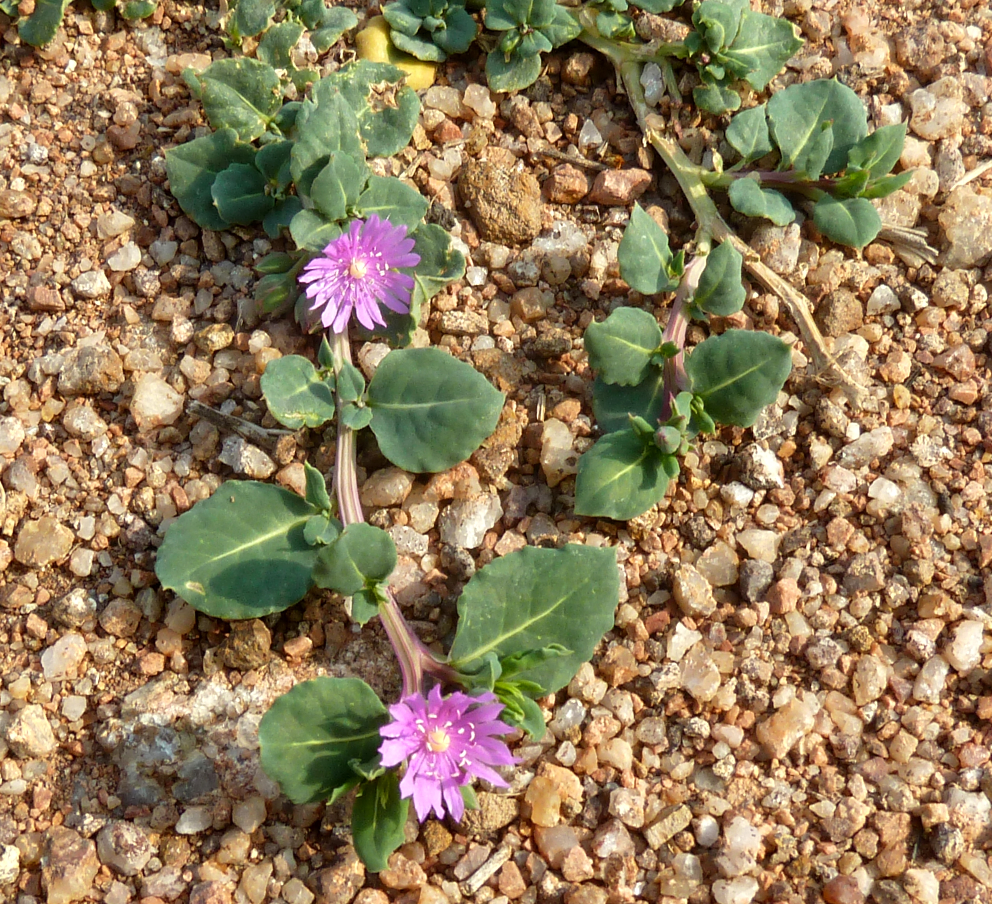 Habit of Corbichonia decumbens at Zoutpan near Pretoria